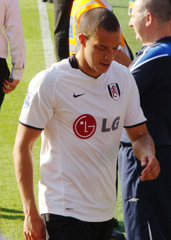 Bobby Zamora of Fulham FC